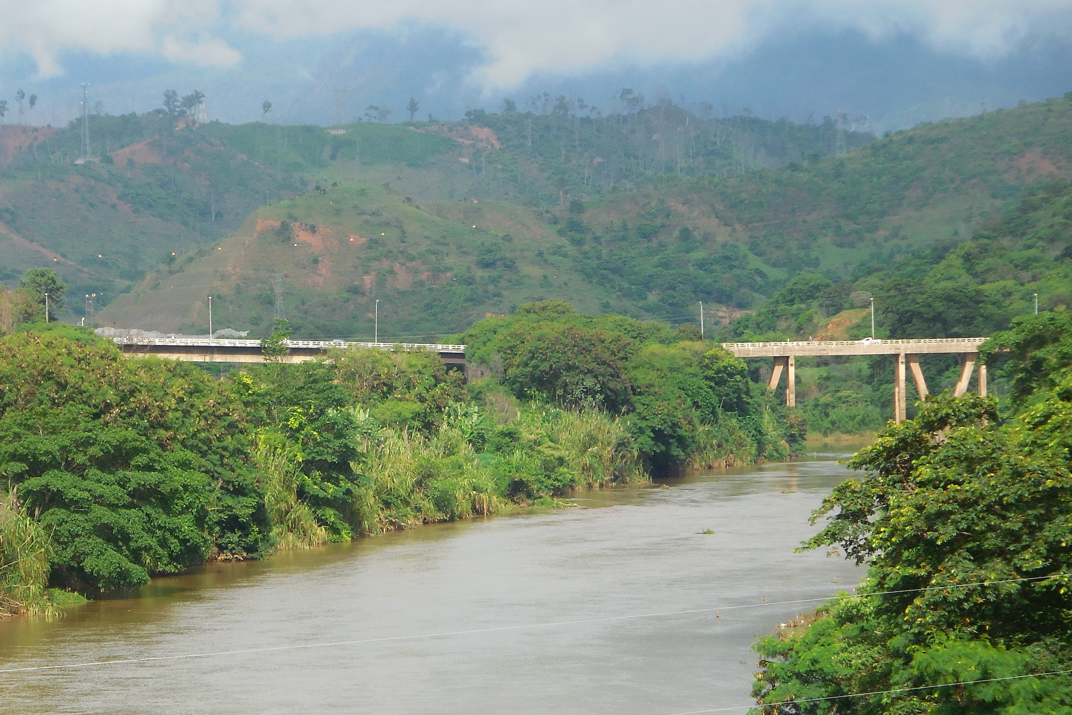 The old bridge over the Piracicaba river seen from of the Manoel Domingos neighborhood, in Coronel Fabriciano, Minas Gerais, Brazil.